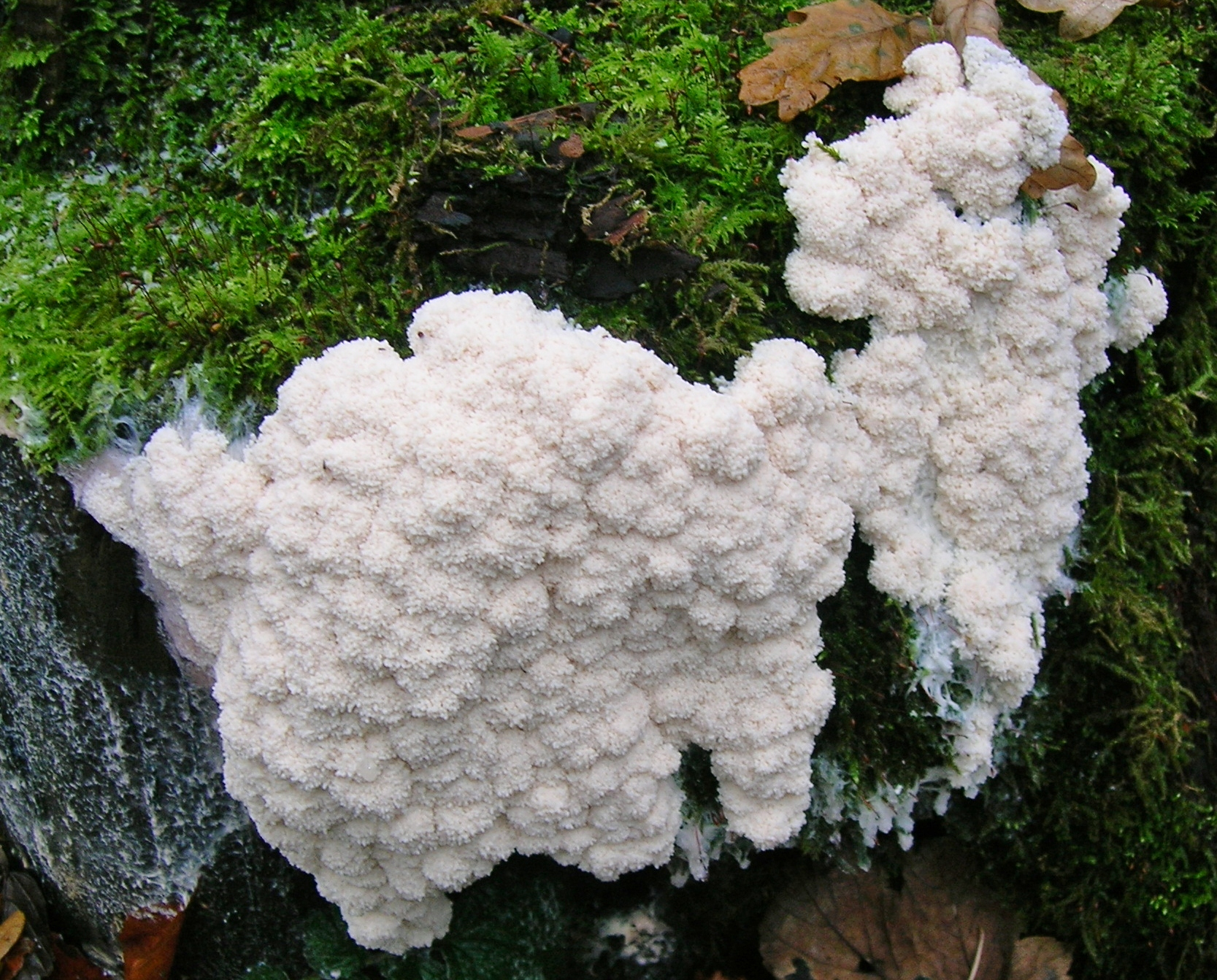 Plasmodium after having moved position - 5 days plus after emergence. Spier's, Beith, North-Ayrshire, Scotland.